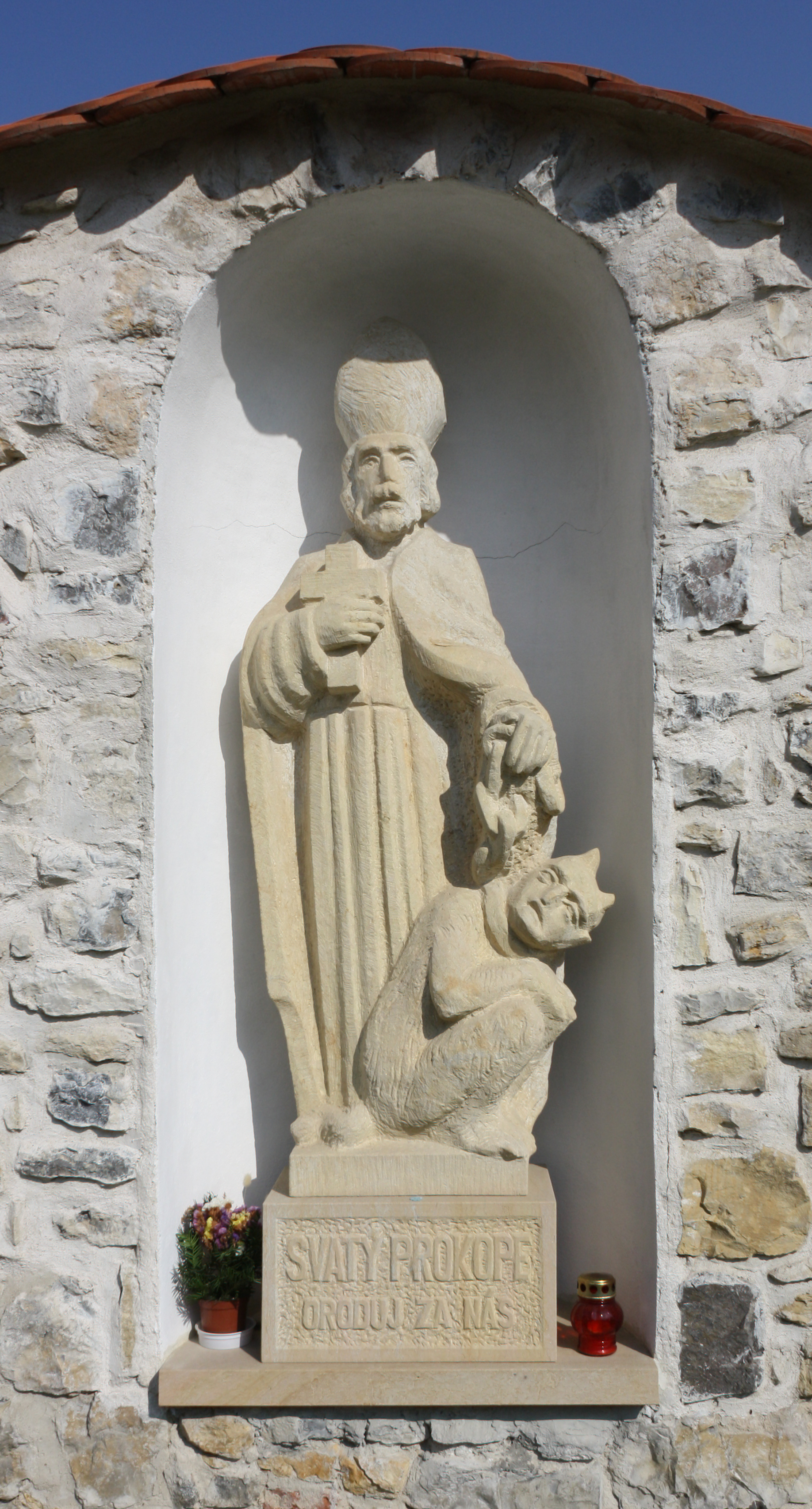 Statue of saint Procopius. Vyšehrad, Prague, Czech Republic This photograph was taken with a DSLR from WMCZ's Camera grant.